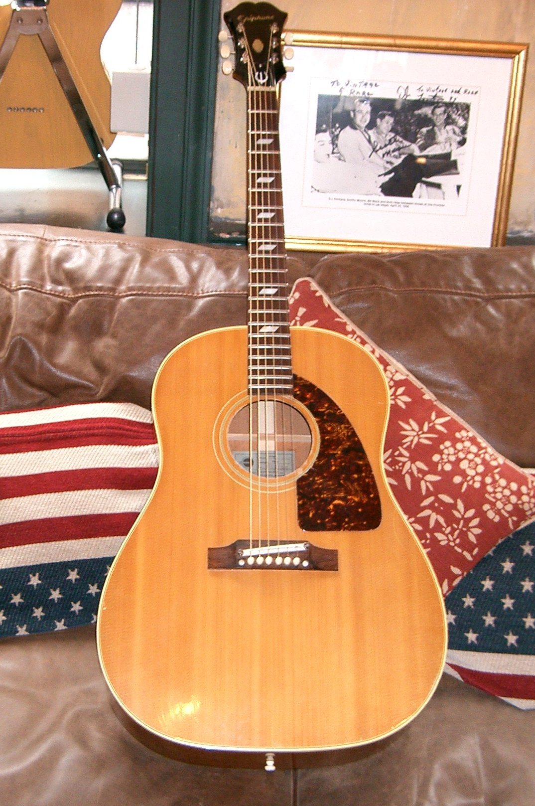 An original 1966 Epiphone Texan, with blue "Made in Kalamazoo" label (Tony Rees photograph)